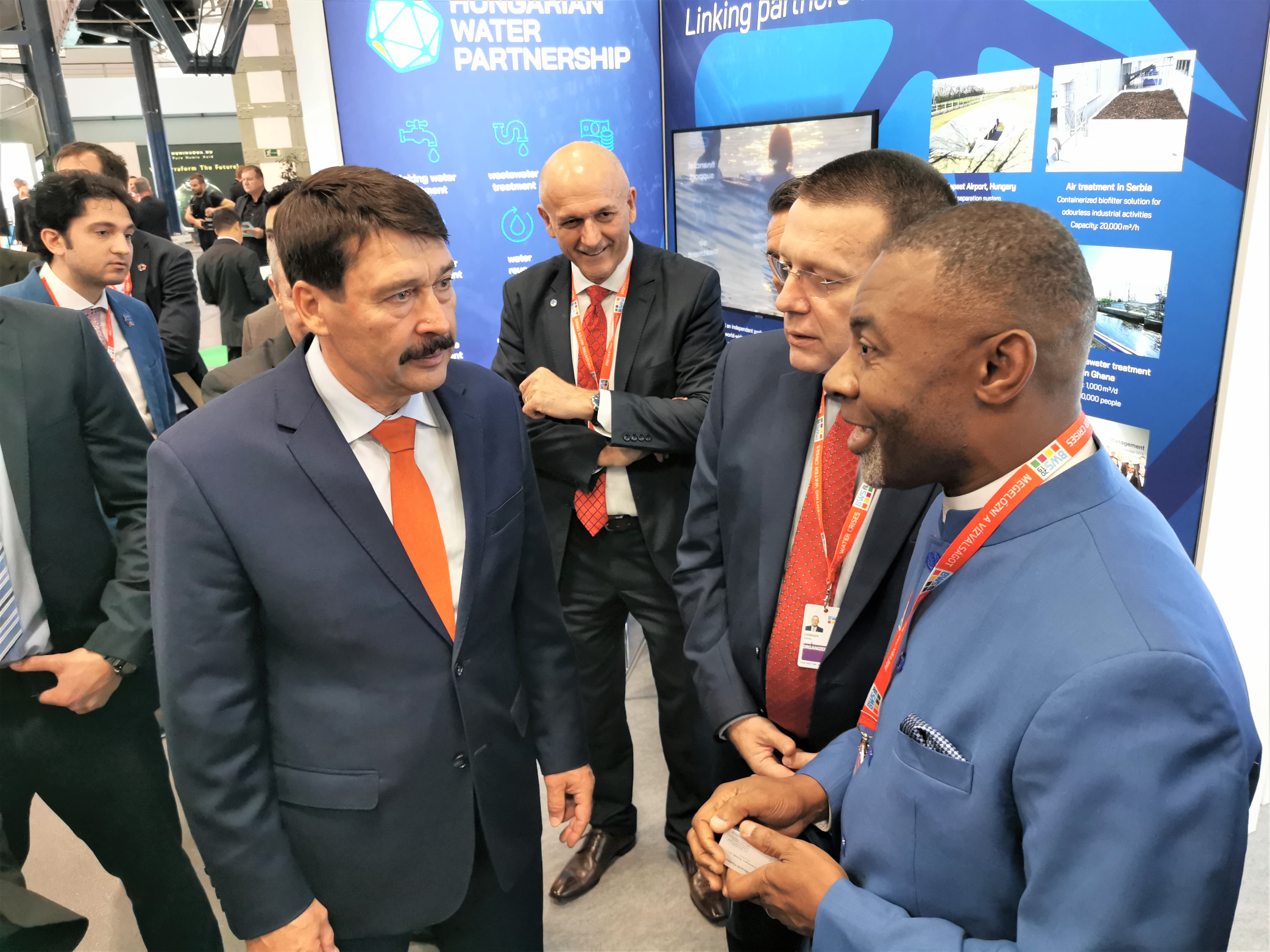 Hungarian Water Partnership. Áder János, President of Hungary.